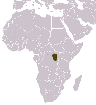 Aquatic Genet (Genetta piscivora) range